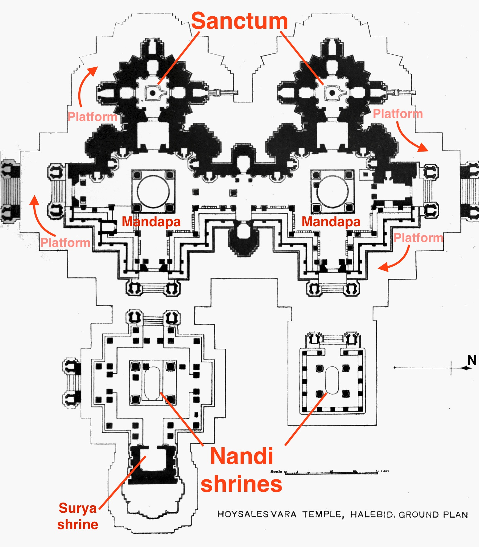 Floor plan, layout of the Hoysaleswara Temple at Halebidu Karnataka India Halebid, Halebeedu, Dvarasamudra, Dorasamudra This is a derivative work on the following image available on wikimedia commons under creative commons license: Halebid temple plan.jpg